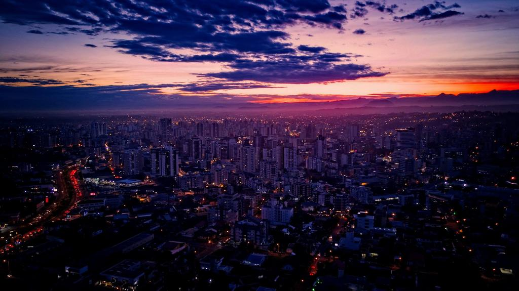 Vista aérea da cidade de Criciúma, no estado de Santa Catarina, ao anoitecer.